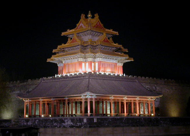 northeast tower of Forbidden City in night light